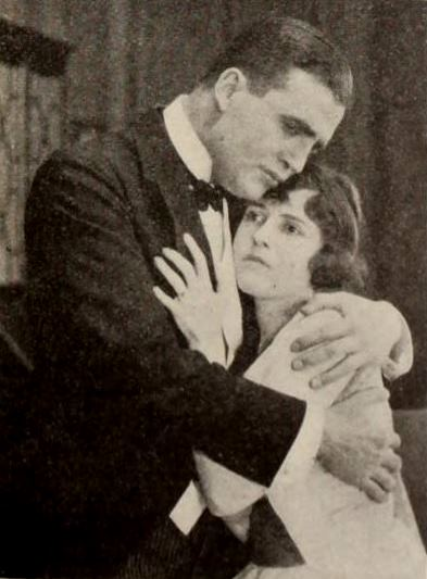 Still from the American comedy drama film Friend Husband (1918) with Rockliffe Fellowes and Madge Kennedy, on page 37 of the August 17, 1918 Exhibitors Herald. Note: Another studio released a short film using the same title in 1918.